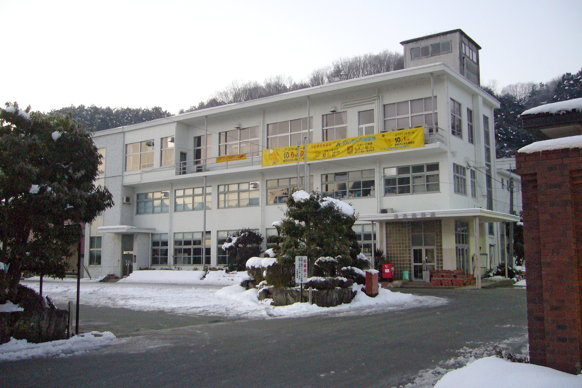 Asago City Hall in Asago, Hyogo prefecture, Japan